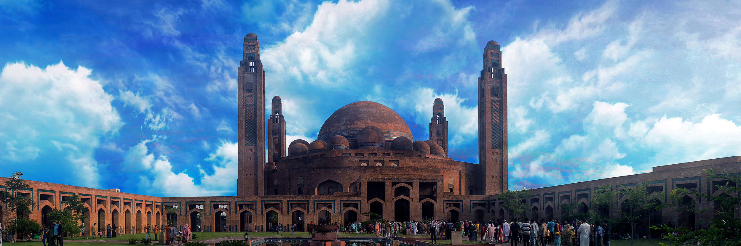 Bahria Mosque Lahore This is a photo of a monument in Pakistan identified as the PB-1